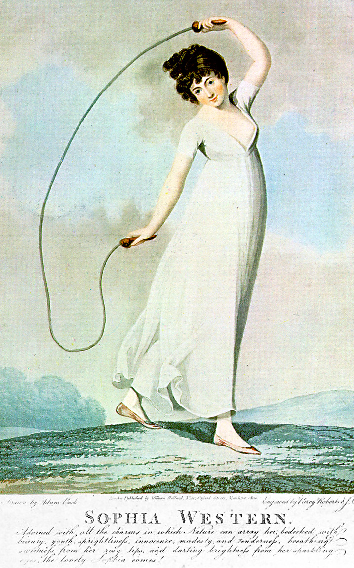 A March 20 1800 pin-up type print (or one of the "fancy pieces in aquatint and stipple depicting pretty girls in flimsy dresses [which] formed a large part of the business of many printsellers at the turn of the nineteenth century", as it's described in the book English Prints for the Collector by Stephen Calloway). Engraved by J.C. Stadler and Piercy Roberts after a drawing by Adam Buck (Adam Buck and Angelica Kauffmann were apparently two of the most popular early 19th-century "pinup" artists, though that word hadn't yet come into use then). Caption at bottom: "SOPHIA WESTERN: Adorned with all the charms in which Nature can array her, bedecked with beauty, youth, sprightliness, innocence, modesty and tenderness, breathing sweetness from her rosy lips and darting brightness from her sparkling eyes, the lovely Sophia comes!" It's somewhat inadvertently humorous that this depicts the heroine of the 1749 novel Tom Jones by Henry Fielding, but shows her in the latest fashions of 1800, rather than in the very different historically-accurate hoopskirts of 1749 -- it would have been extremely difficult to jump rope in the clothing styles (and high-heeled shoes) of 1749... The dishevelment of her clothes in the picture was not meant to contradict the word "modesty" in the caption, but was supposed to be understood as being the accidental and unintentional effect of her strenuous physical activity... For another Adam Buck "pinup" print, see Image:1799-pinup-print-archers-Adam-Buck-unbound-hair.jpg .